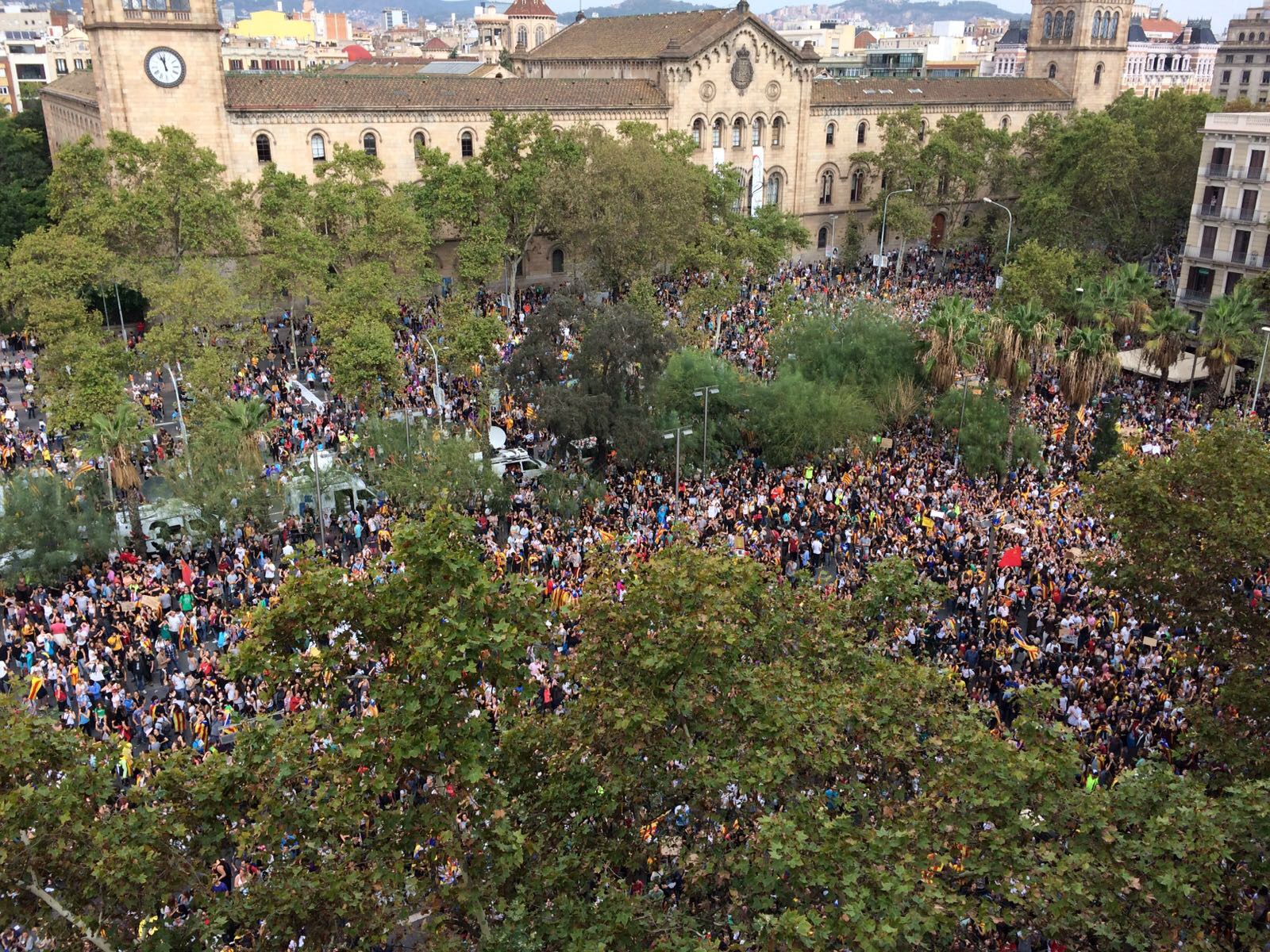 Strike in protest at police violence during the referendum on Catalonian independence